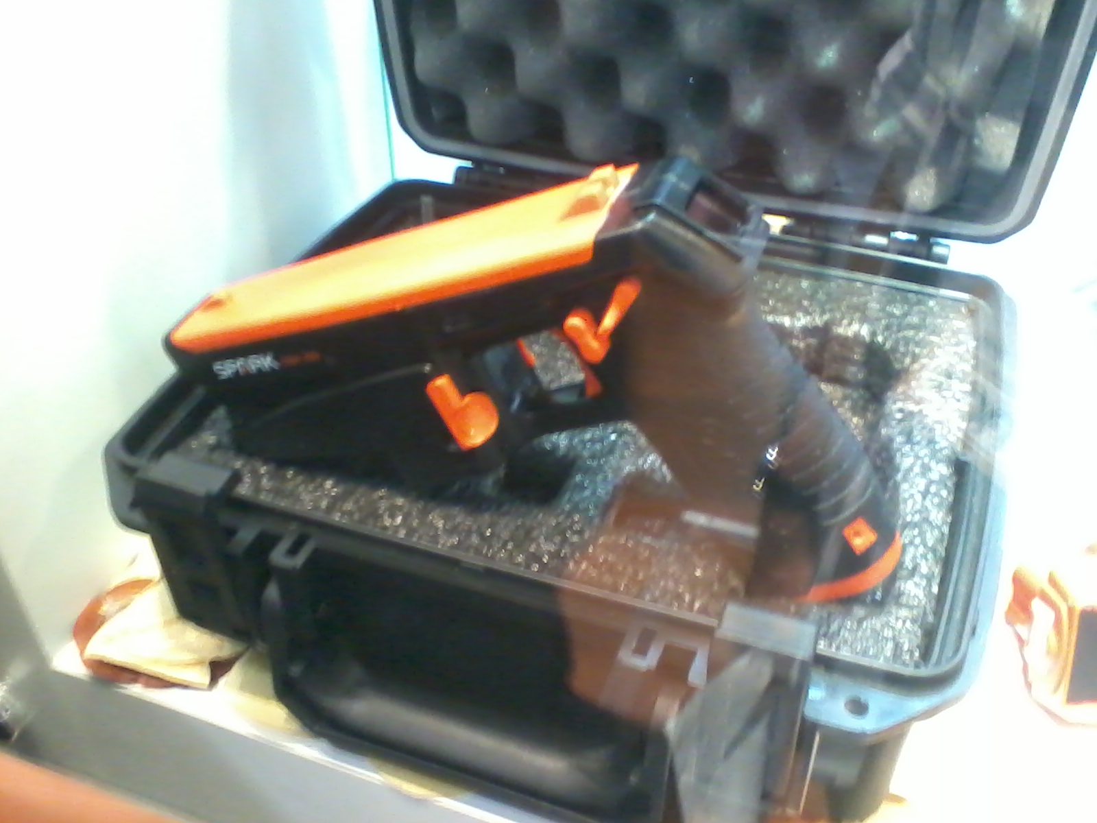 Spark electroshock device made by Condor Não Letal, exposed at EXPOSEC 2012